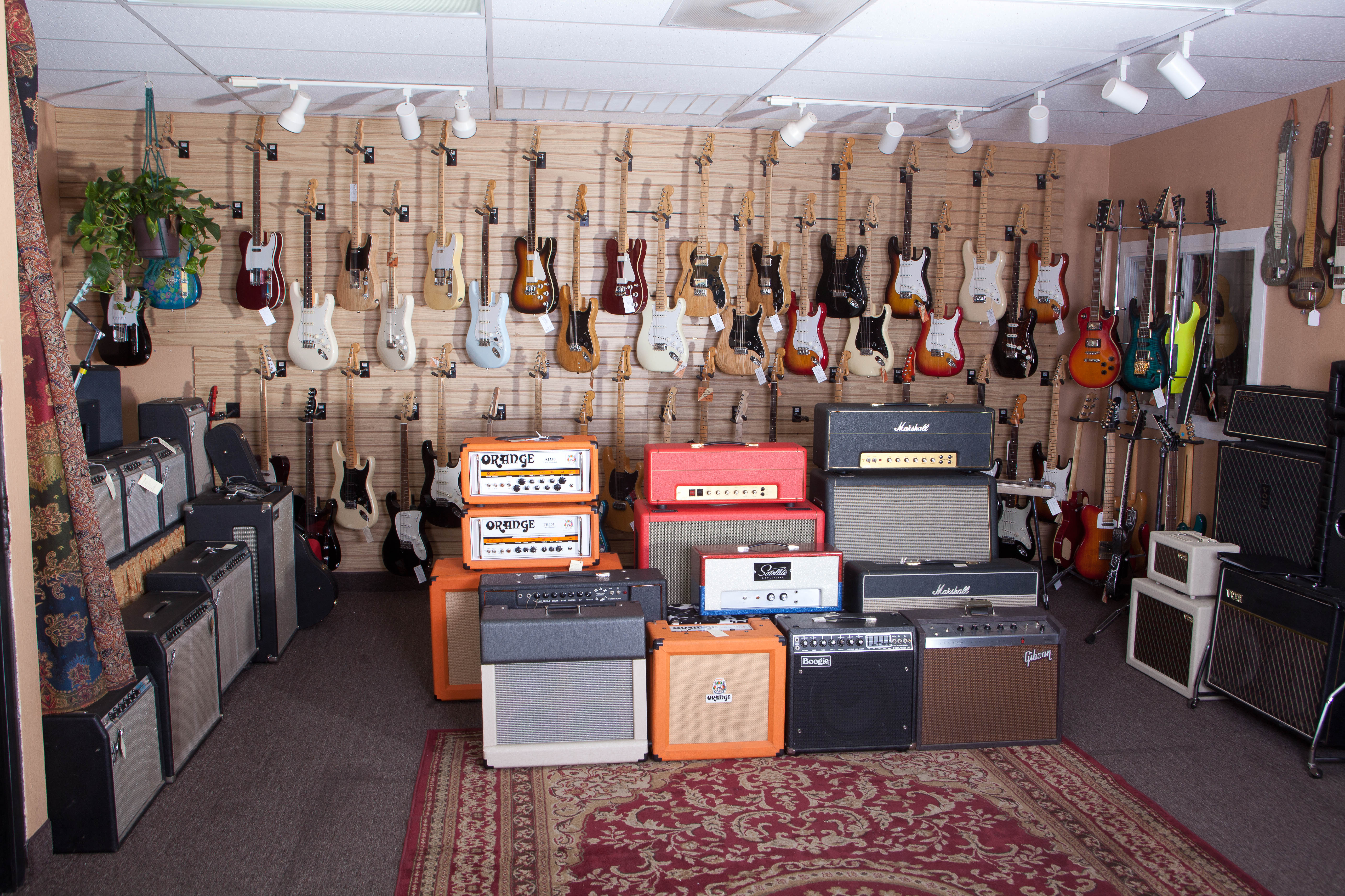 Interior Cowtown Guitars